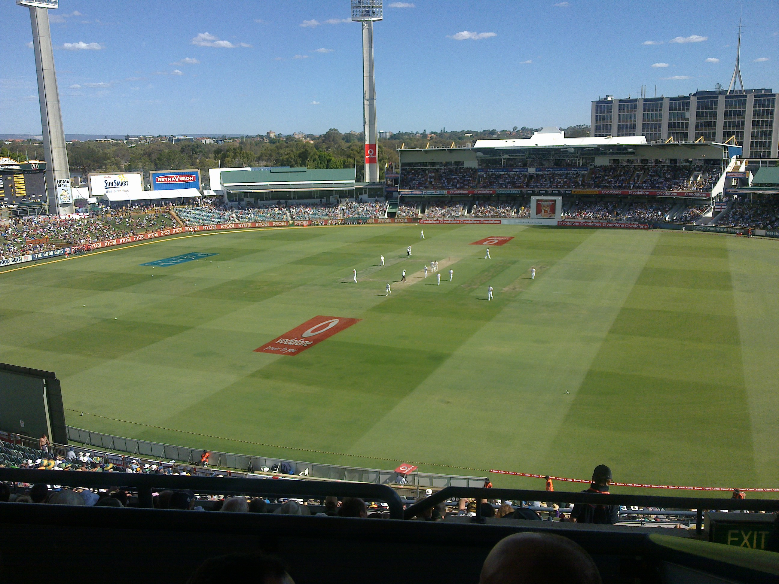 Ashes 2010-11 3rd Test at the WACA Ground, Perth. Day2. Australian 2nd innings openers